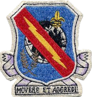 Emblem of the USAAF 405th Fighter Wing (approved 11 November 1955